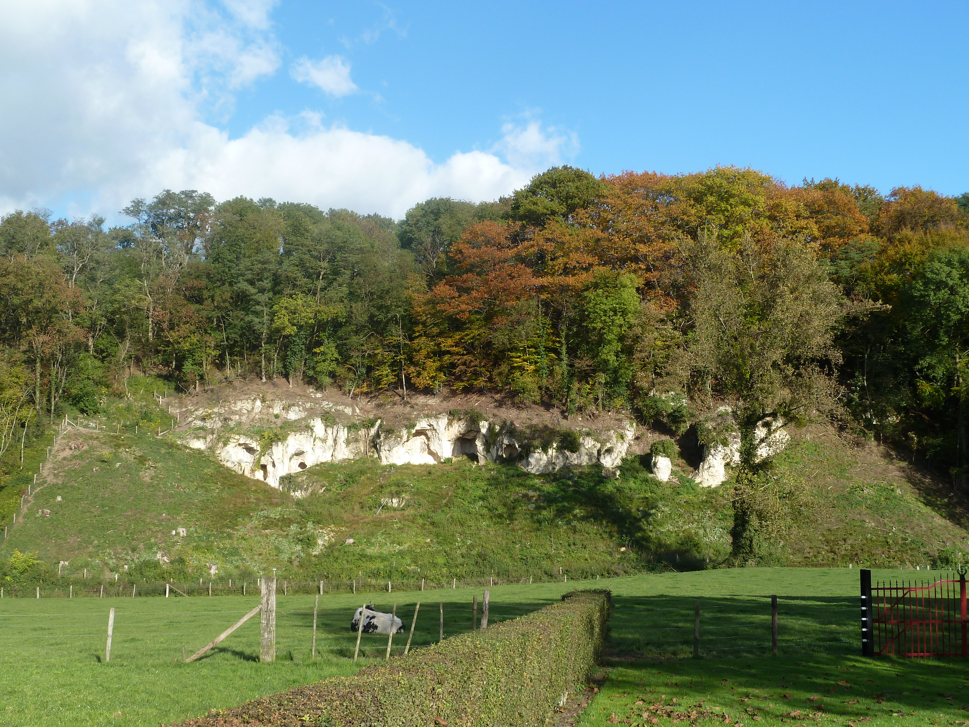 East of Sint Antoniusbank, Bemelen, Limburg, the Netherlands